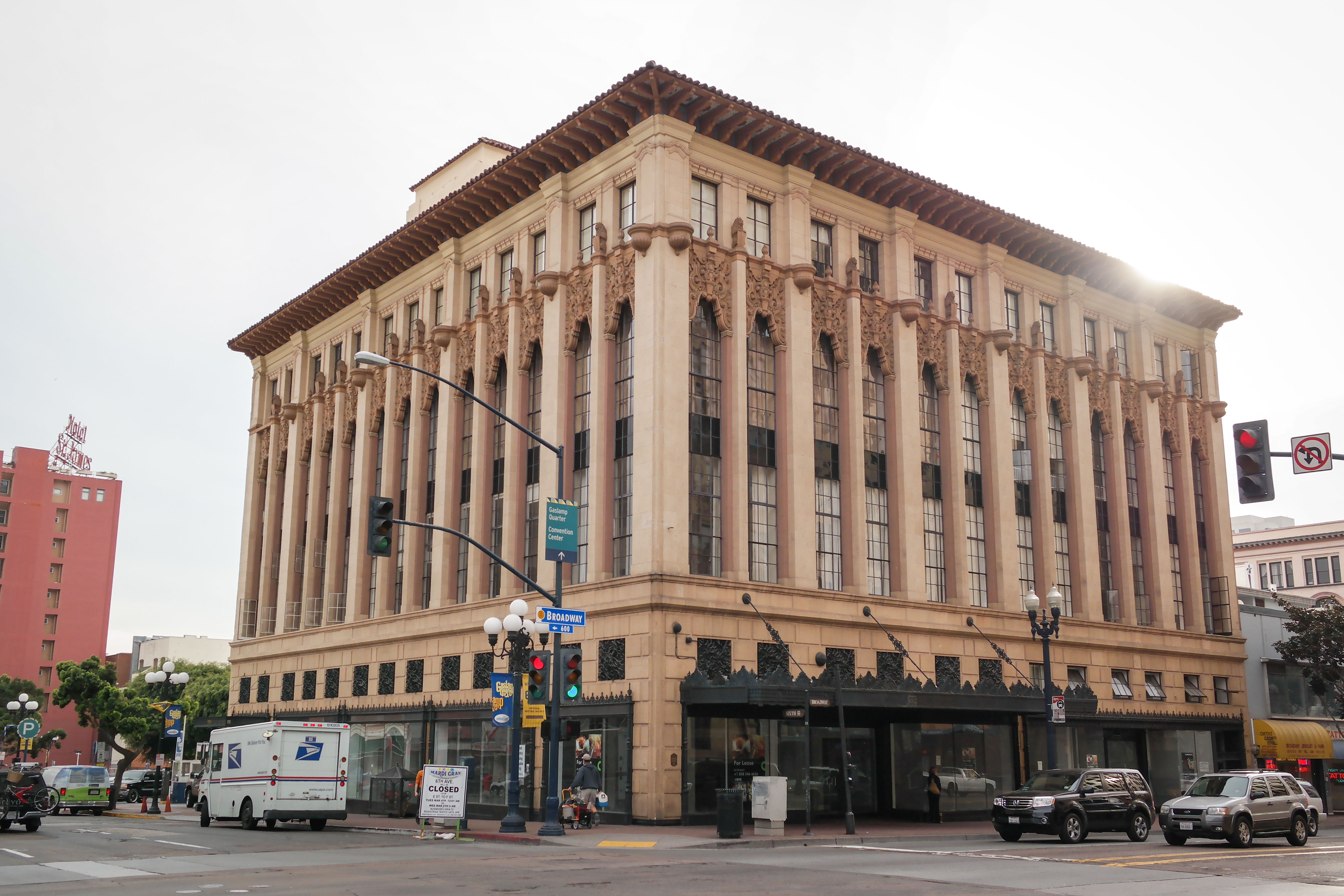 Historic Building Survey plaque: "72 Samuel I. Fox Building, 1929. Entrepreneur Samuel Fox built this four-story structure for a half of a million dollars. It was intended to accommodate his Lion Clothing Company, which was the sole tenant, until 1984. It boasts 16-foot ceilings, antique oak wood paneling, heraldic lions in full relief, and an over-hanging tile roof. The building was recognized as an artistic masterpiece and a merchandising success."